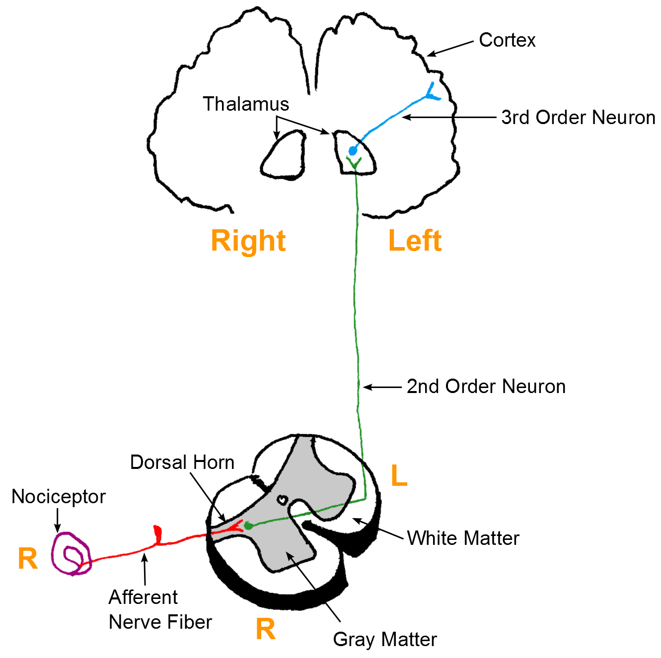 Simplified overview of the signal pathways for nociception